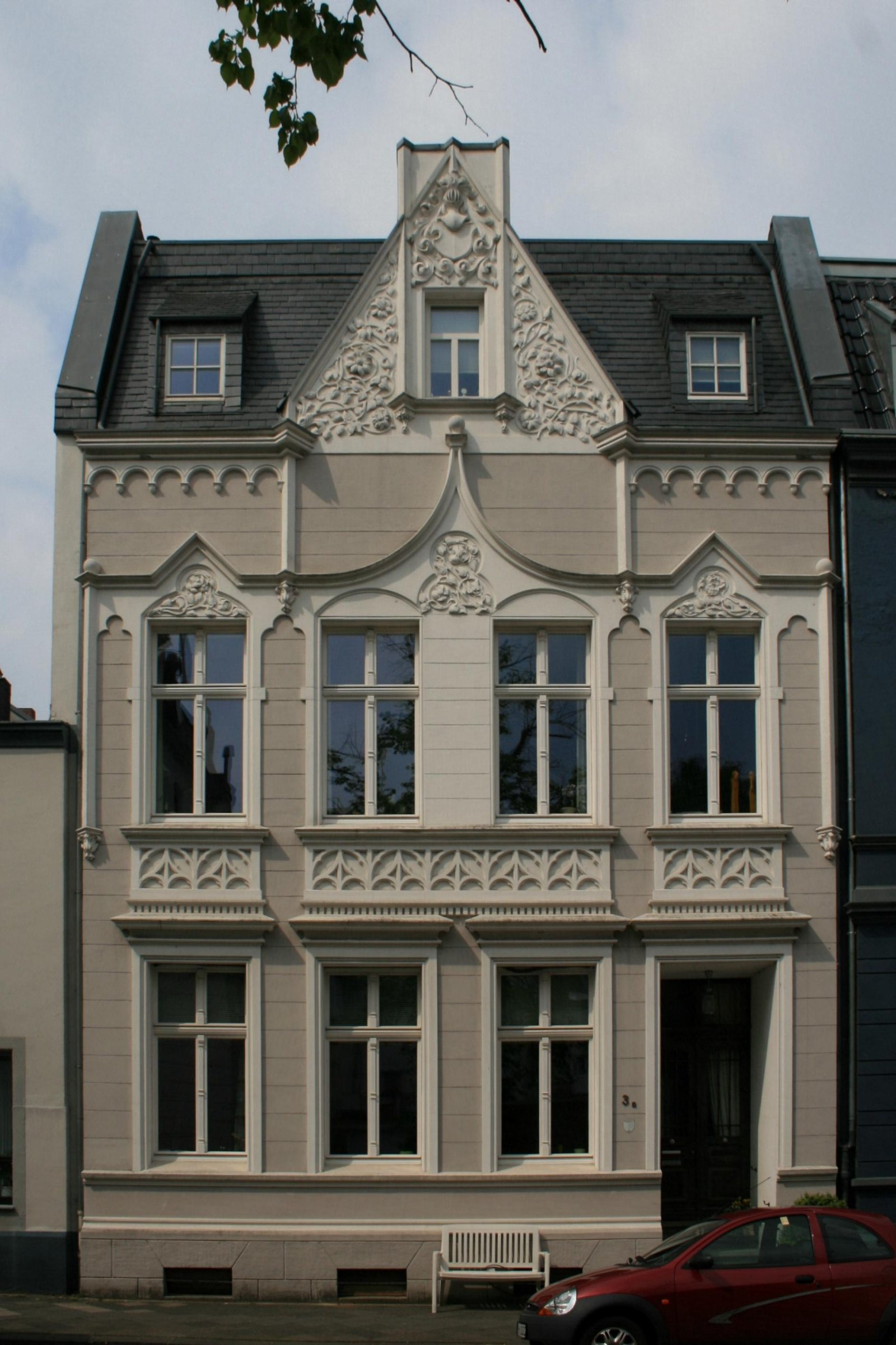 Cultural heritage monument No. H 099 in Mönchengladbach